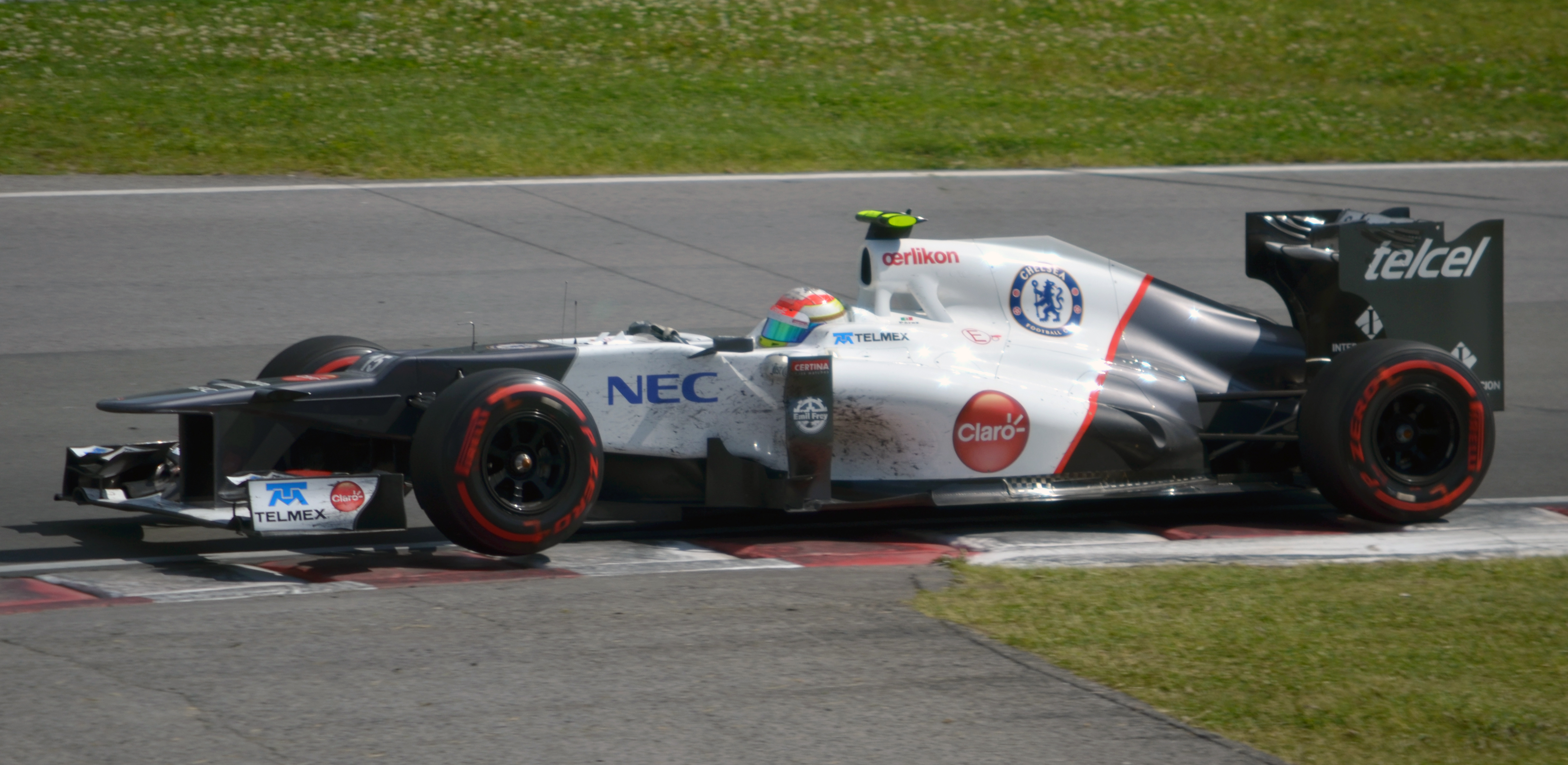 Sergio Perez heads to third place on the final lap of the 2012 Canadian Grand Prix at Circuit Gilles Villeneuve driving the Sauber - Ferrari C31.